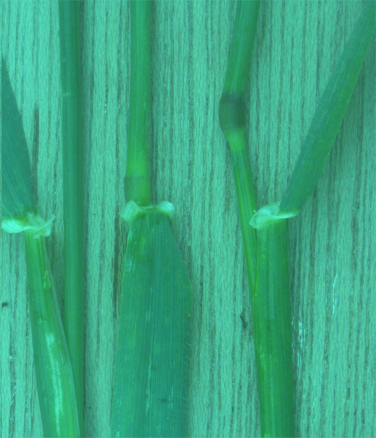 Hordeum murinum ligula